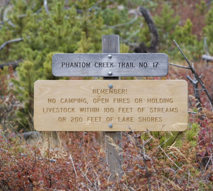 Phantom Creek Trail (Trail No. 17) posted within Absoroka-Beartooth Wilderness in Montana.